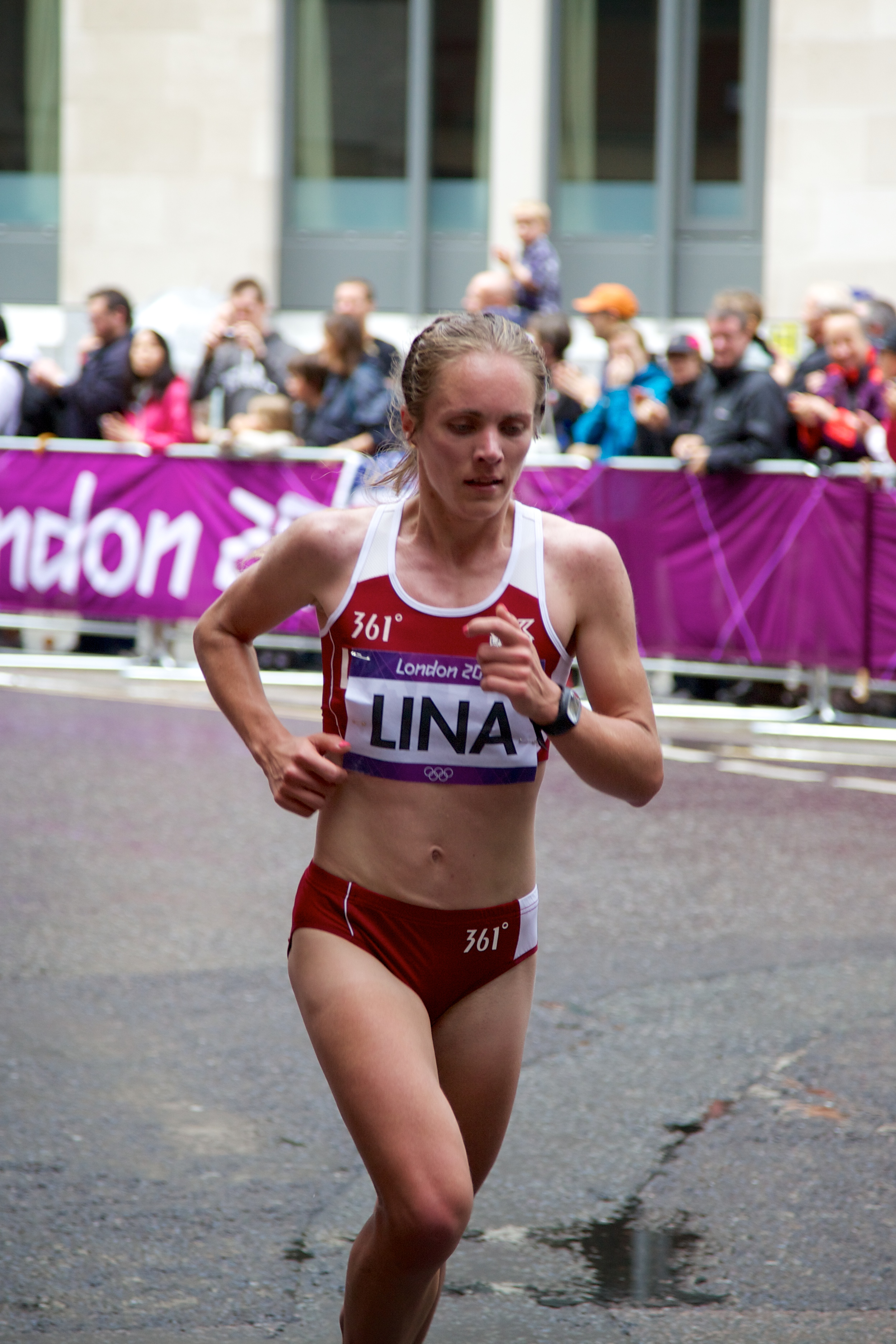 Dace Lina - Women's marathon at 2012 Olympics.